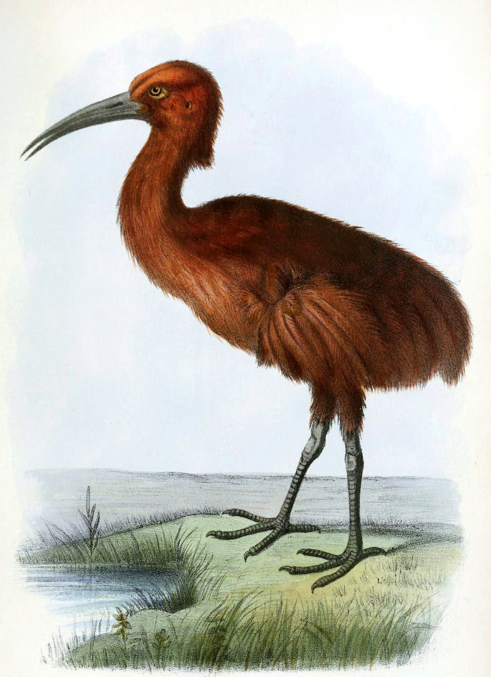 « Aphanapteryx broeckei » = Aphanapteryx bonasia (Red Rail)